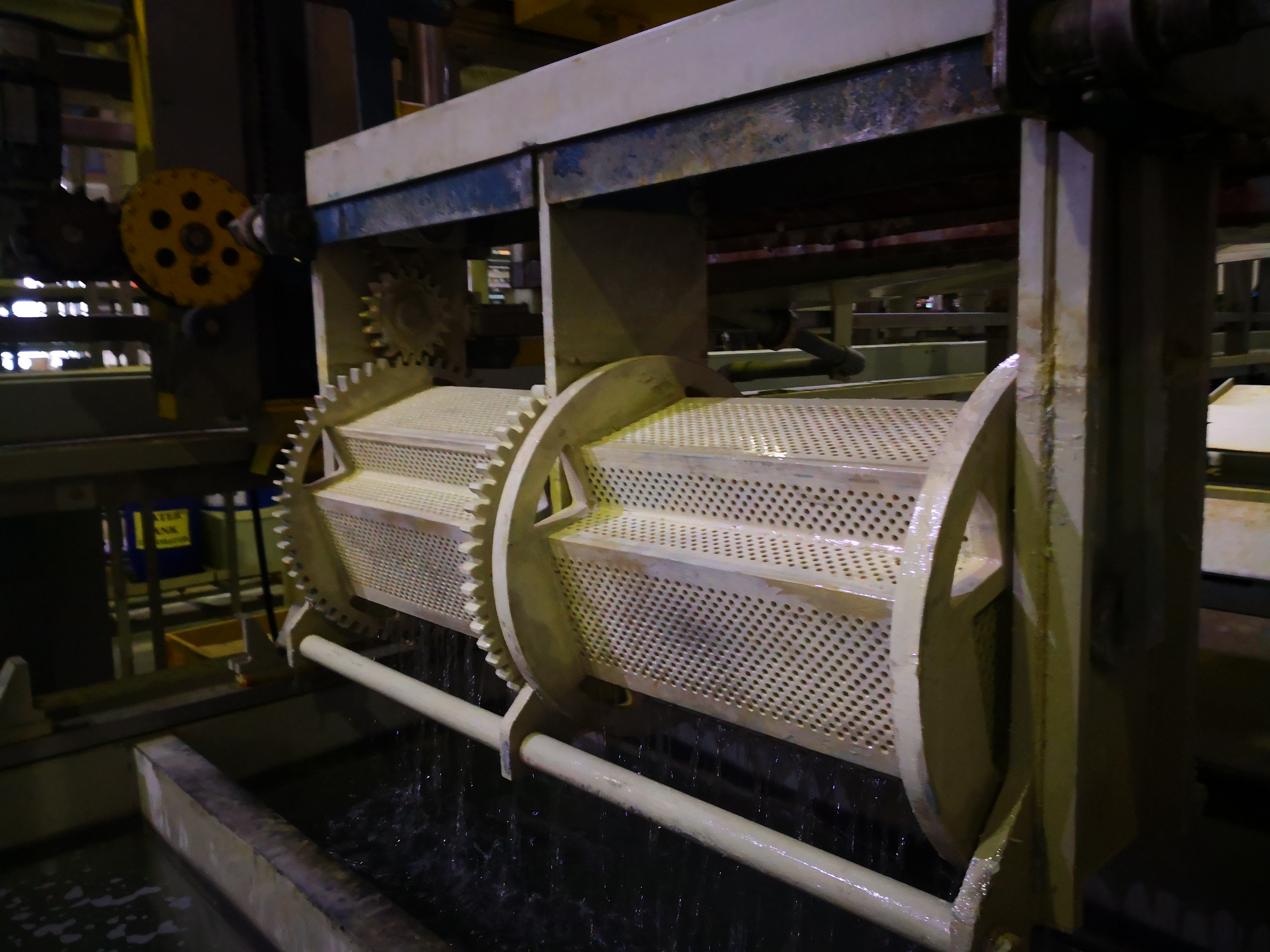 Barrel Plating untuk bahagian metalik yang kecil . Plating ini ialah khusus untuk penyaduran nikel